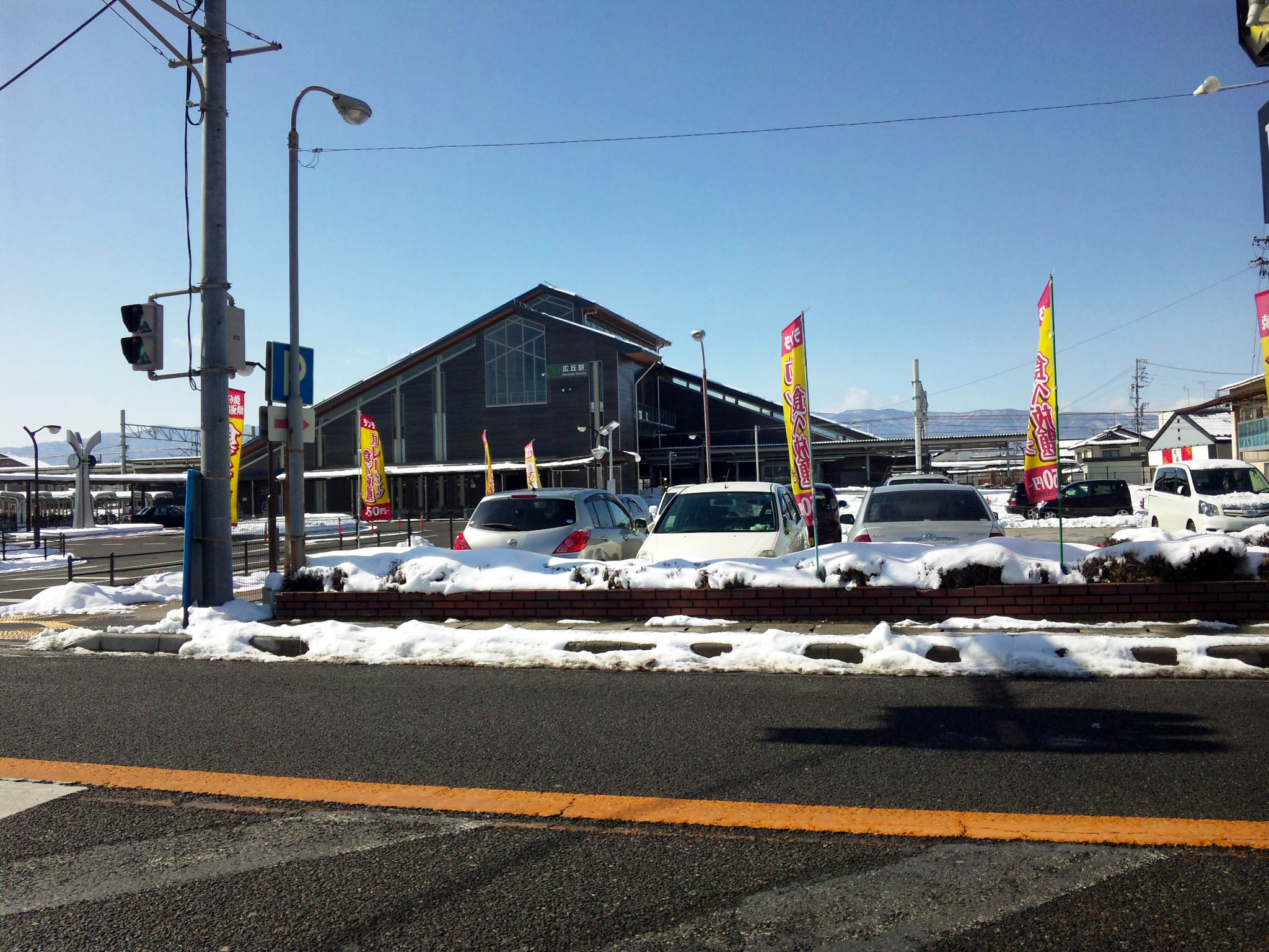 hirookastation